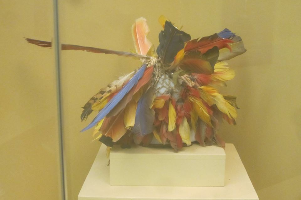 MUSEO NACIONAL DE RIO DE JANEIRO